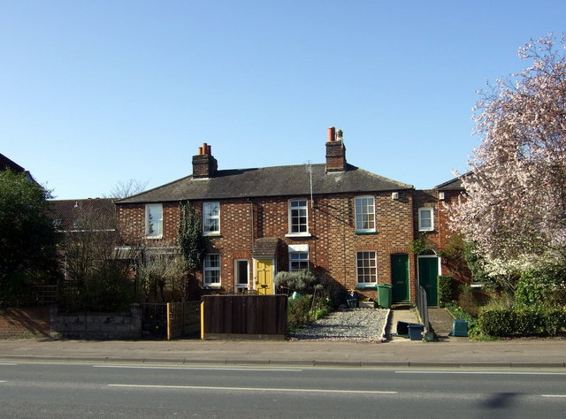 Cottages on the west side of Banbury Road, Summertown, Oxford. Urbanisation in this area began around 1820 when farmland began to be sold for building. Note the checquered effect of red and salt glazed blue bricks.